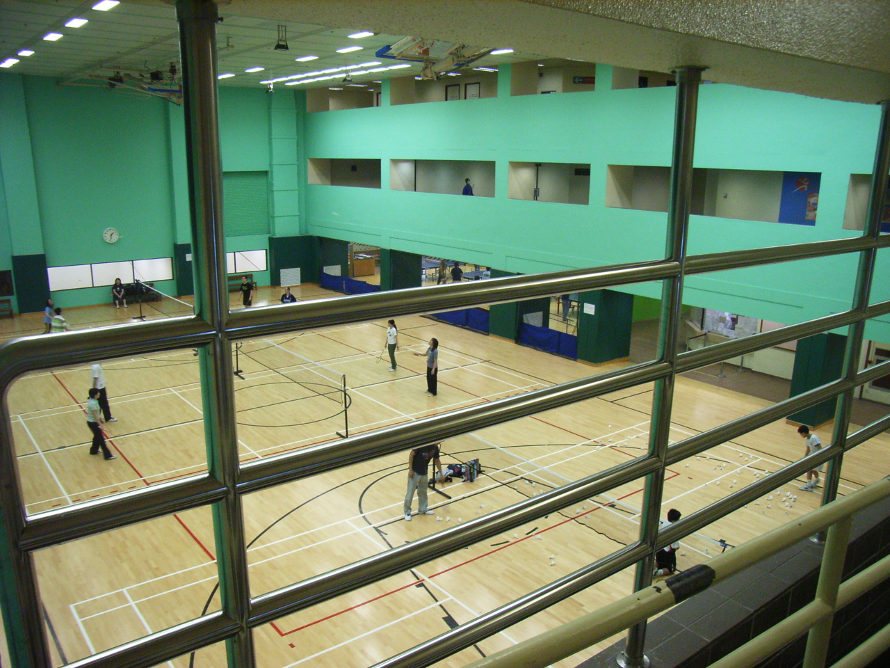 Around the Oi Kwan Road, Wan Chai, Hong Kong Author:Wenzi MHTI